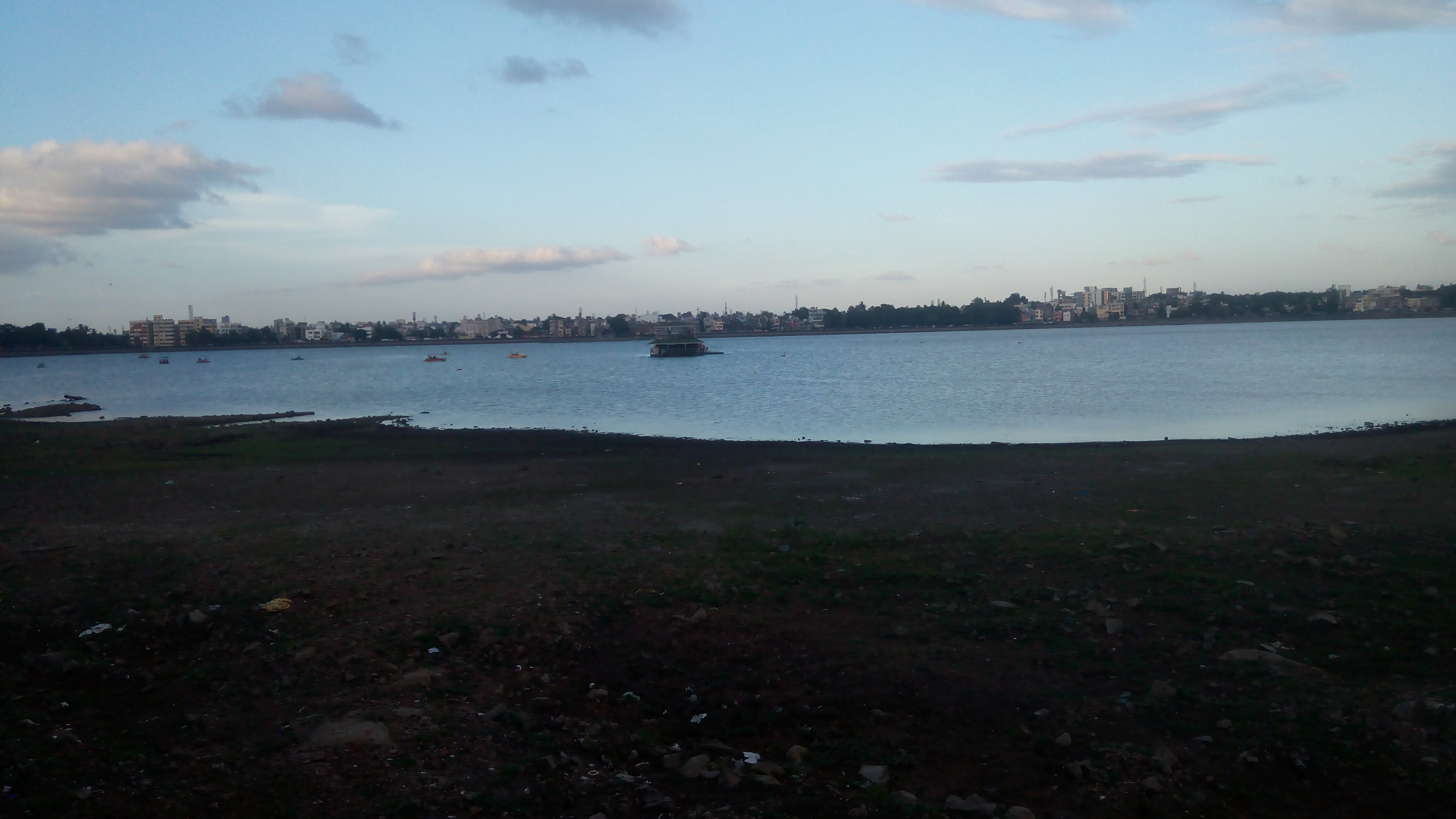 Rankala kolhapur looks tremendously beautiful in evening wowww 😍